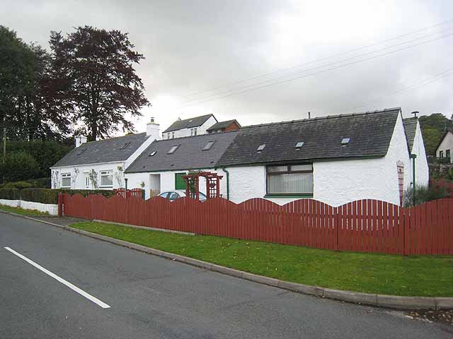 Cottages south of Beattock Located on the old A701 Dumfries to Glasgow road.